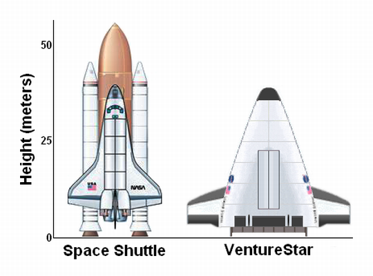 Derivative work of NASA. Based upon original NASA images: VentureStar at [1], X-33 image posted at (NASA web site) and Space Shuttle at [2]. Licensing Kelvin Case publicly releases this personal creation under the Creative Commons license